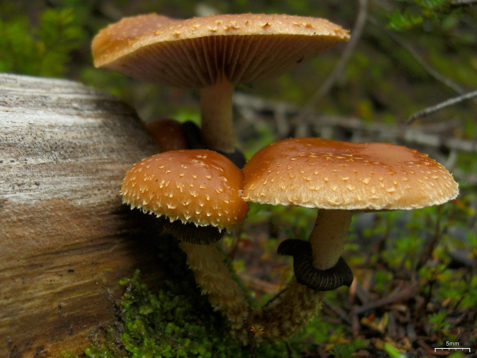 Leratiomyces squamosus var. squamosus (Pers.) Bridge & Spooner Location: Glacier Peak Wilderness, Washington, USA Observation Notes: growing on wood associated with trail-construction in upper part of White Chuck River valley ~5000’ For more information about this, see the observation page at Mushroom Observer.